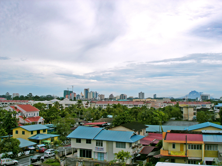 View of Kuching CBD skyline from Kenyalang